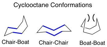 A graphic I made compiled from sources cited in macrocyclic stereocontrol.